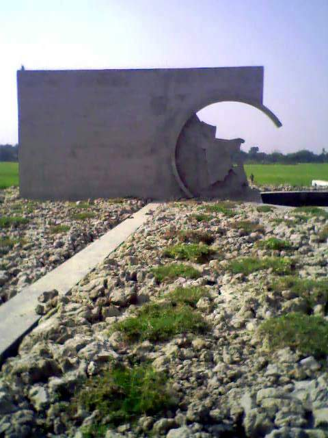 Grave of Mostafa Kamal, war hero of Bangladesh.